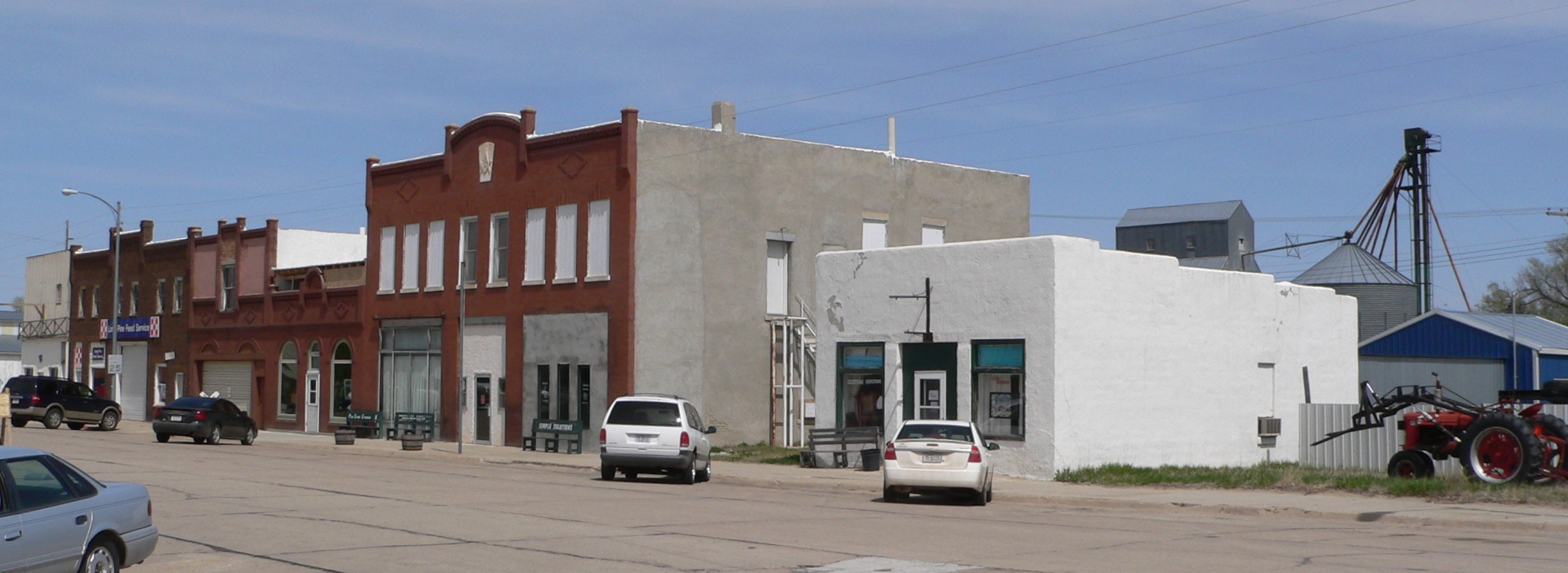 Downtown Long Pine, Nebraska: east side of Main Street, looking north from 3rd Street.